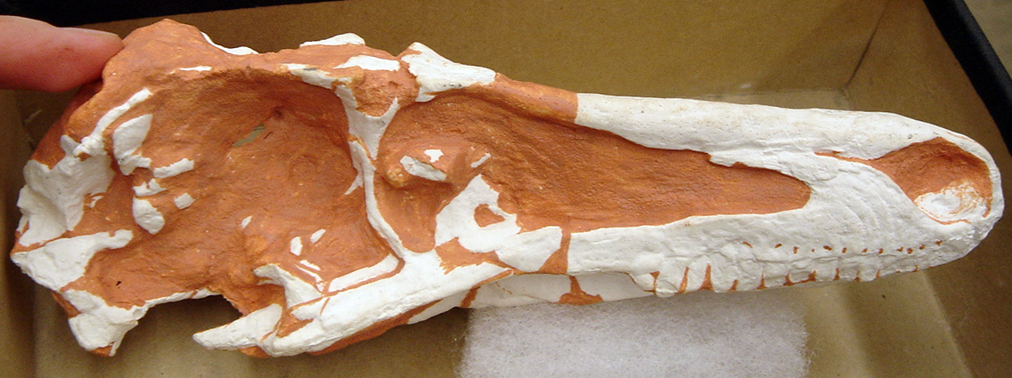 Skull of Saurornithoides